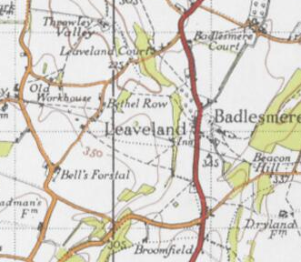 Ordnance survey map of Chatham and Maidstone